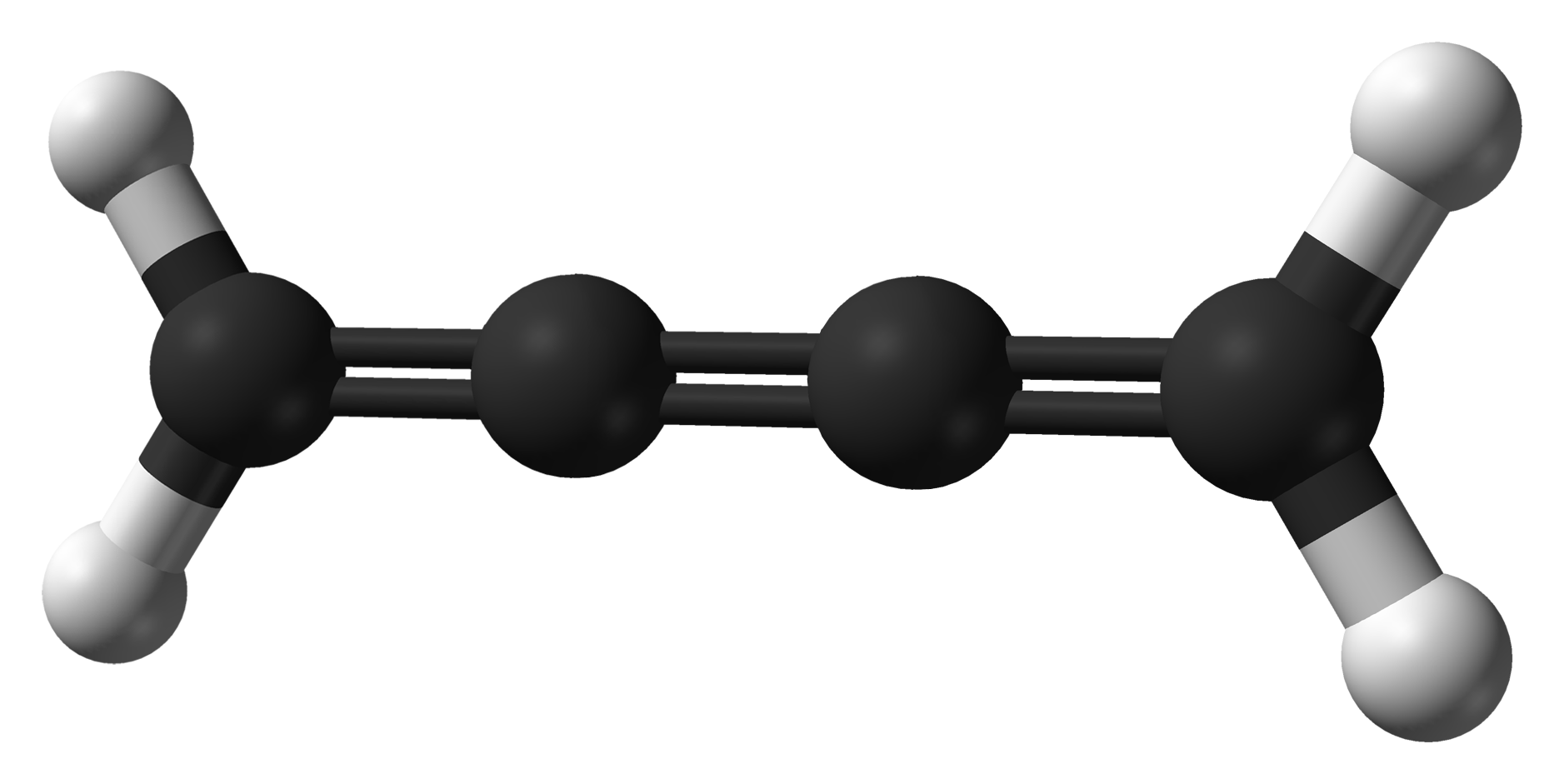 Ball-and-stick model of the butatriene molecule.